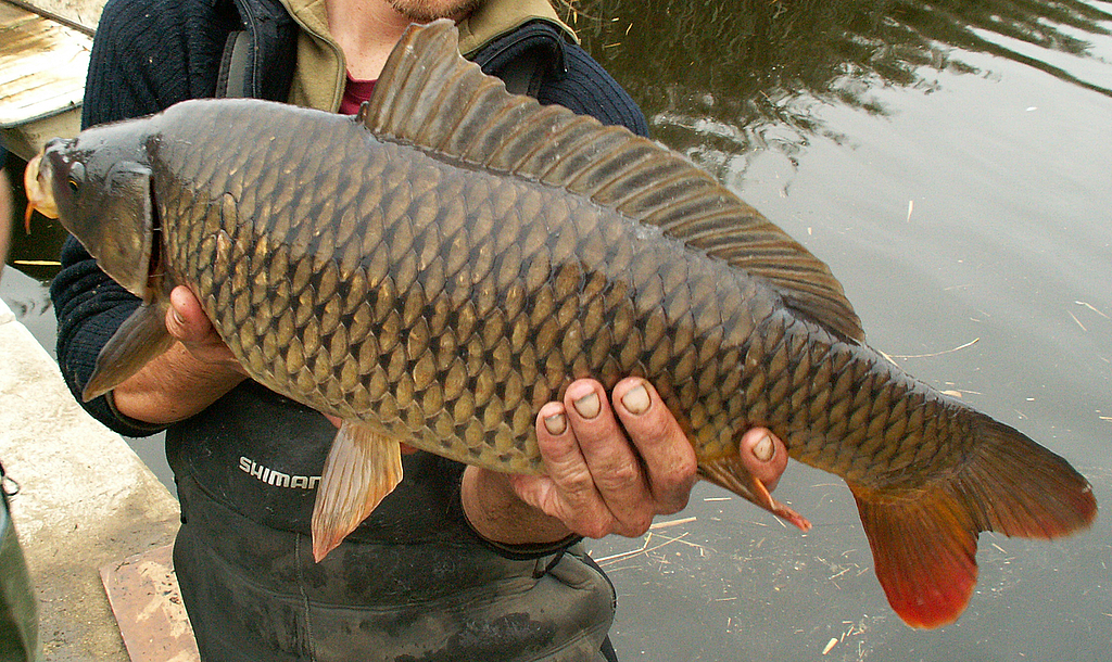 Dutch feral carp (Cyprinus carpio) from the Flevo Polder. This is a carp from a free spawning population, but descended from cultured carp.